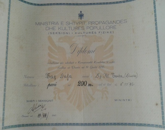 200 m viti 1945